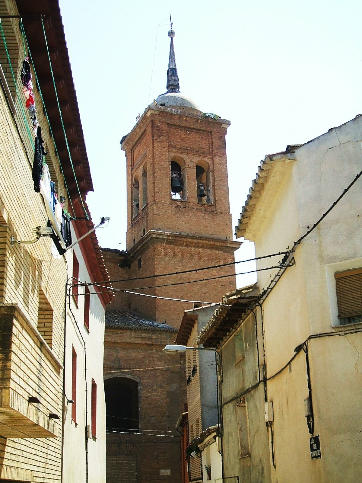 Iglesia parroquial de San Salvador, Sariñena, Huesca, Aragón, España